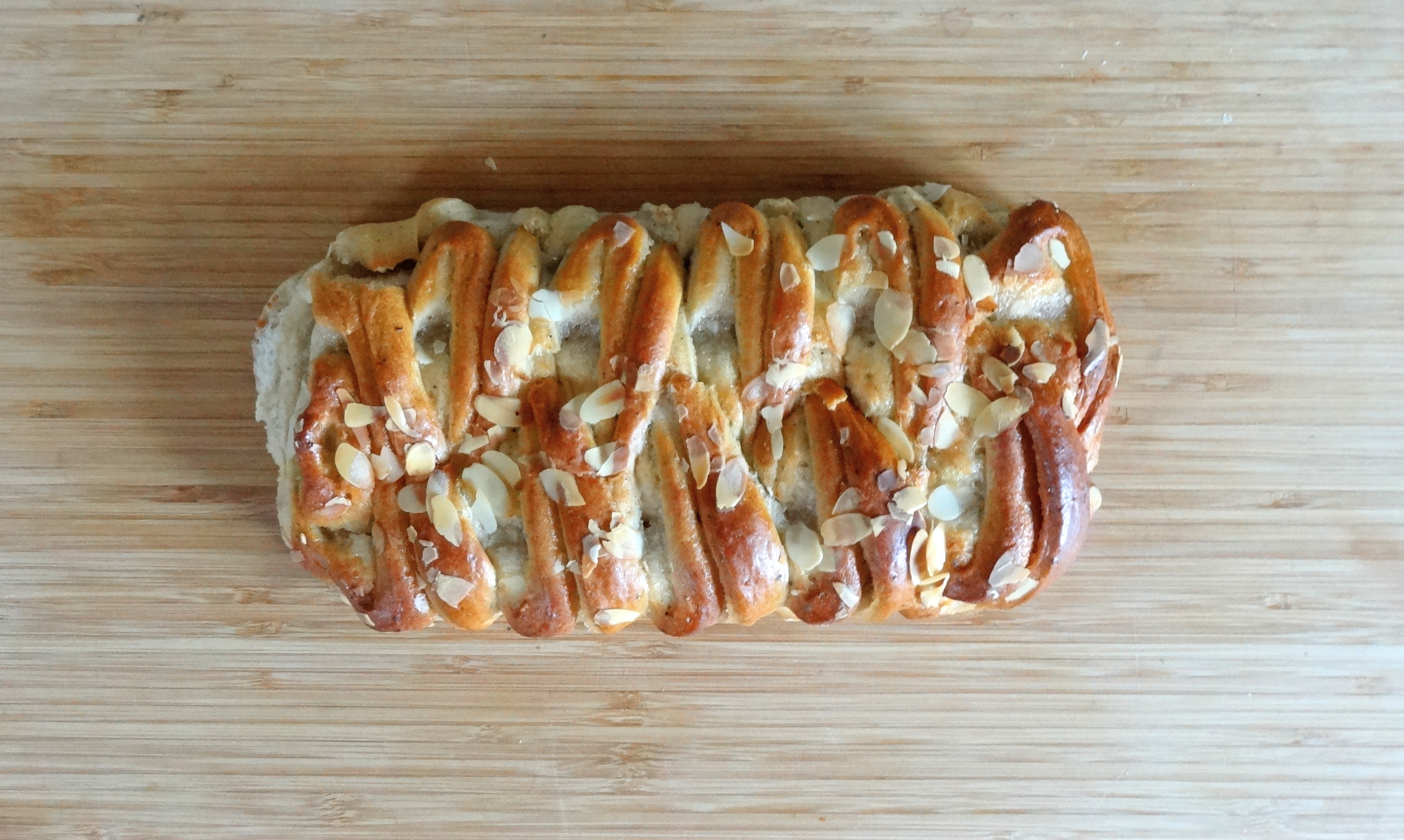 An almond "längd", a popular type of sweet pastry in Sweden.